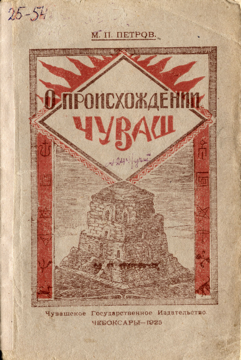 Cover of M.P. Tinehpi's book "O proishozhdenii chuvash" (1925)